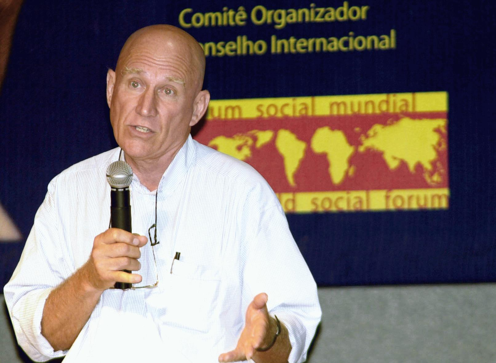 Sebastião Salgado at World Social Forum 2003.